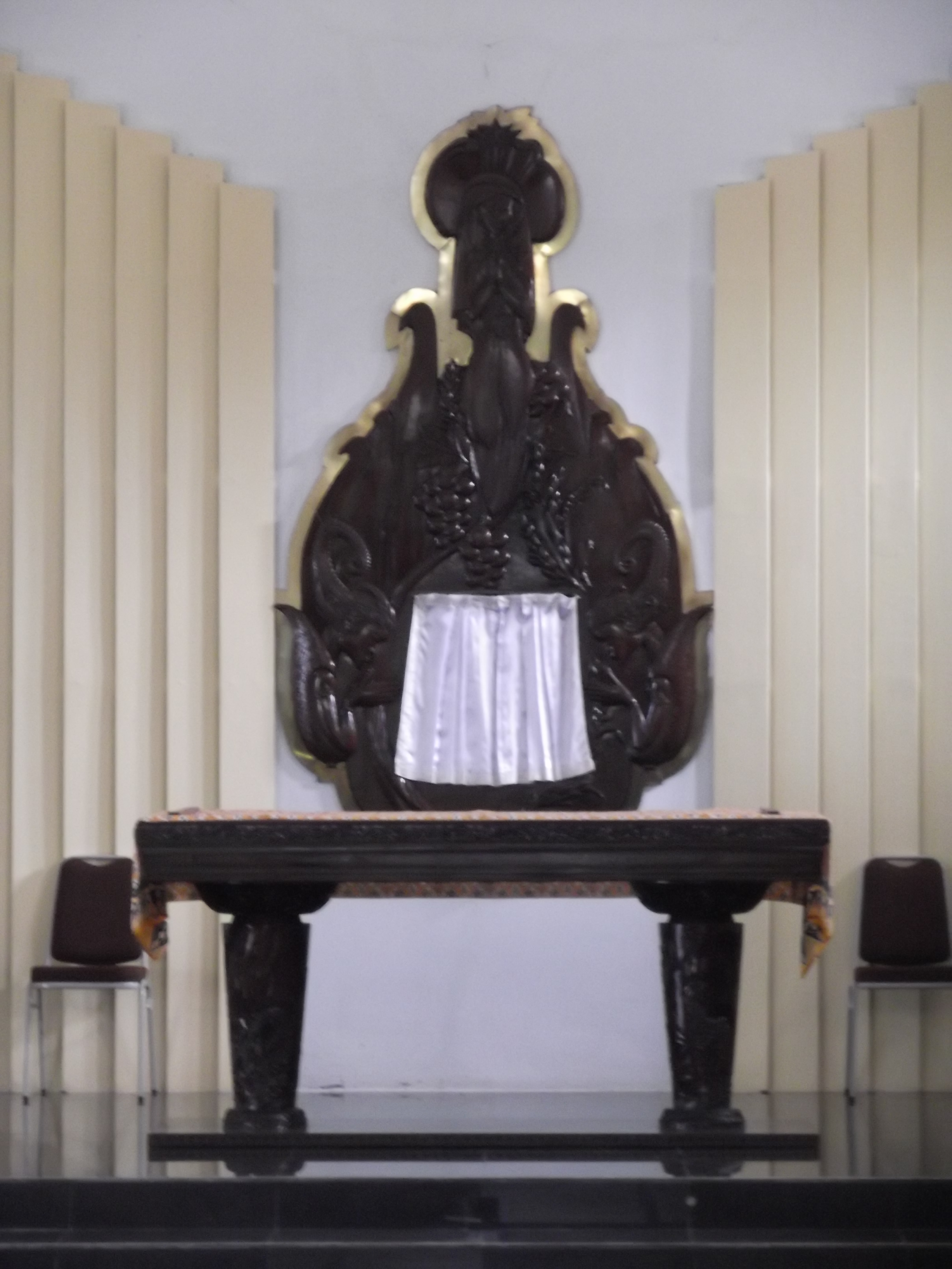 Church altar and tabernacle of the Monastery of Saint Mary Rawaseneng, Temanggung, Indonesia. A wood carving work designed by Y.B. Mangunwijaya surrounds the tabernacle; Our Lady clasping hands depicted at the top.